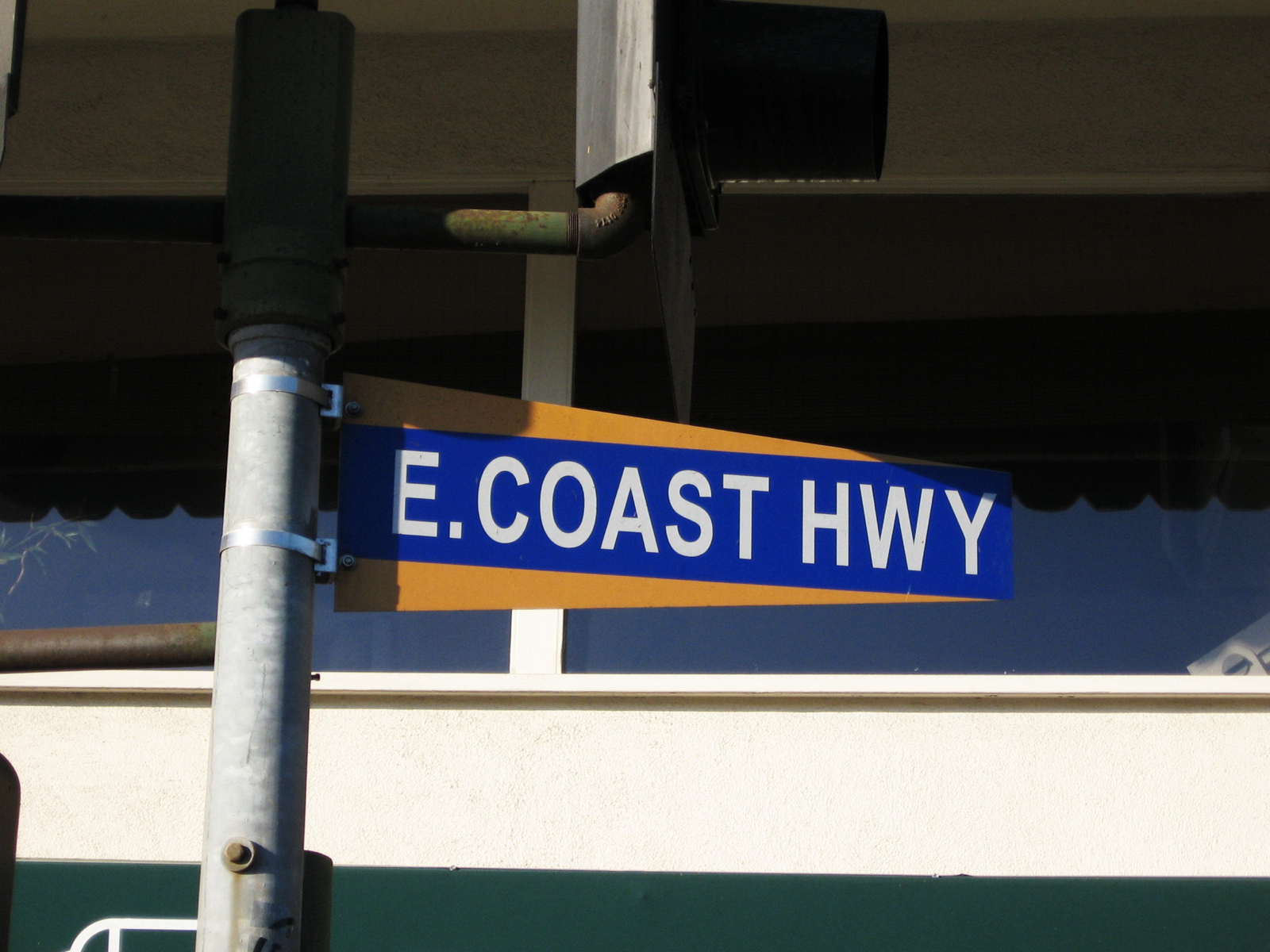 California State Route 1 (Pacific Coast Highway) in Newport Beach, California.